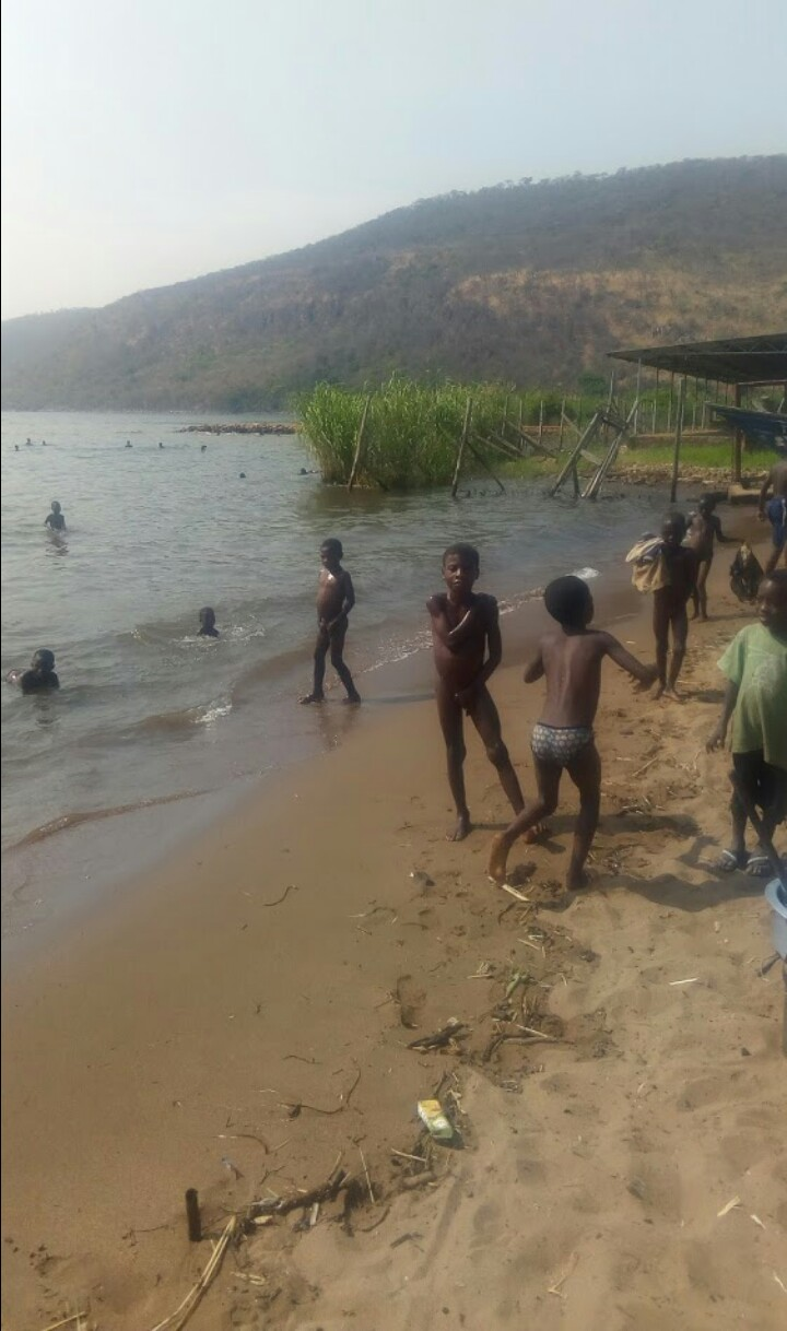 Happy with Friends